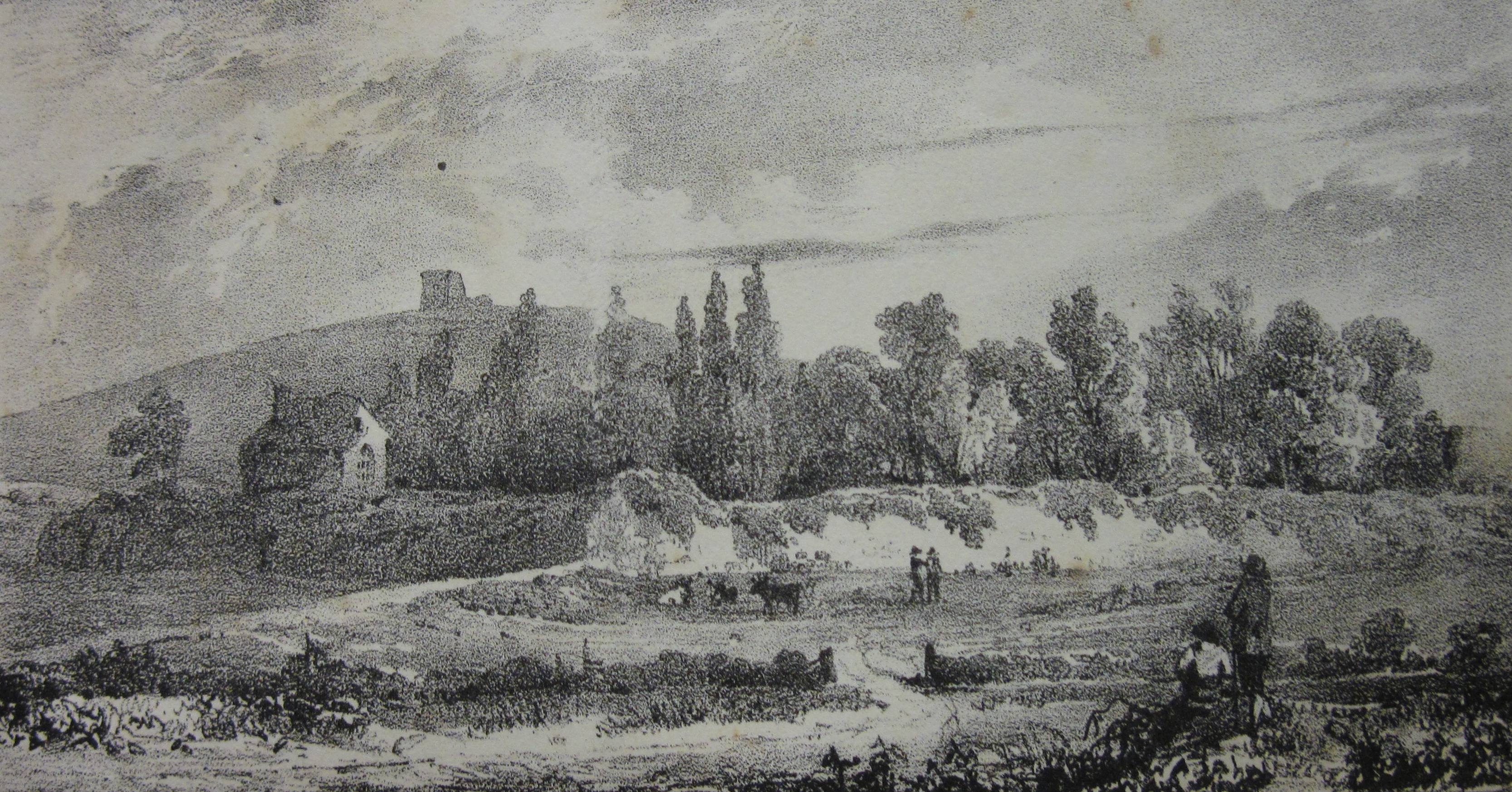 A Guide to the Island of Guernsey, being a complete description of the Island, the authorities, & professional men, with a Commercial Directory, also a brief description of the adjacent Islands of Alderney, Serk, Herm and Jethou. Guernsey, 1826.